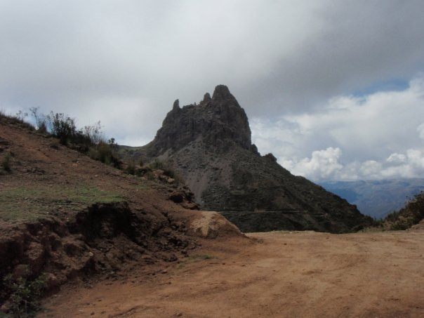 Muela Del Diablo taken on December 2008 by myself.